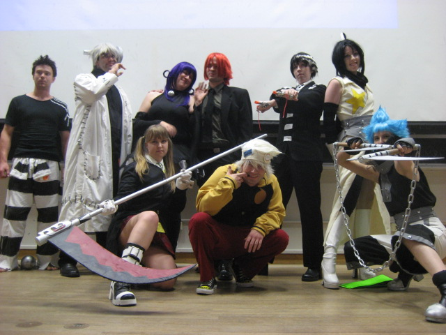 Photograph of a group of 2008 Geek.Kon attendees dressed in costume as characters from Soul Eater. The photograph is likely from the Masquerade/costumer competition. Originally published at Dane101